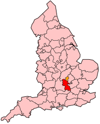 map of admin county